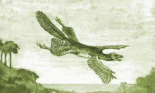 The hypothetical bird ancestor Tetrapteryx.